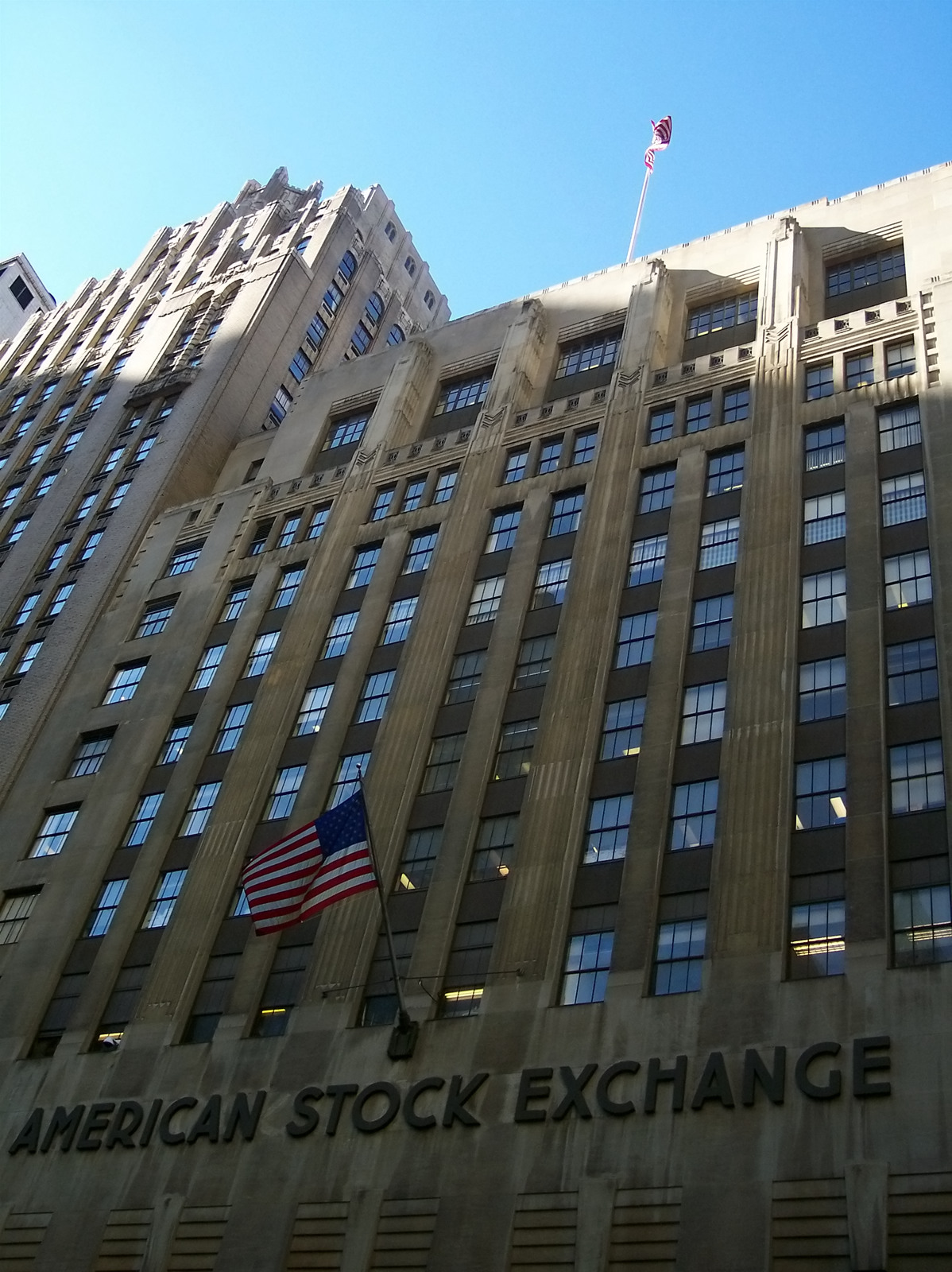 The American Stock Exchange in New York City, New York.Uris took this photograph in October 2005.